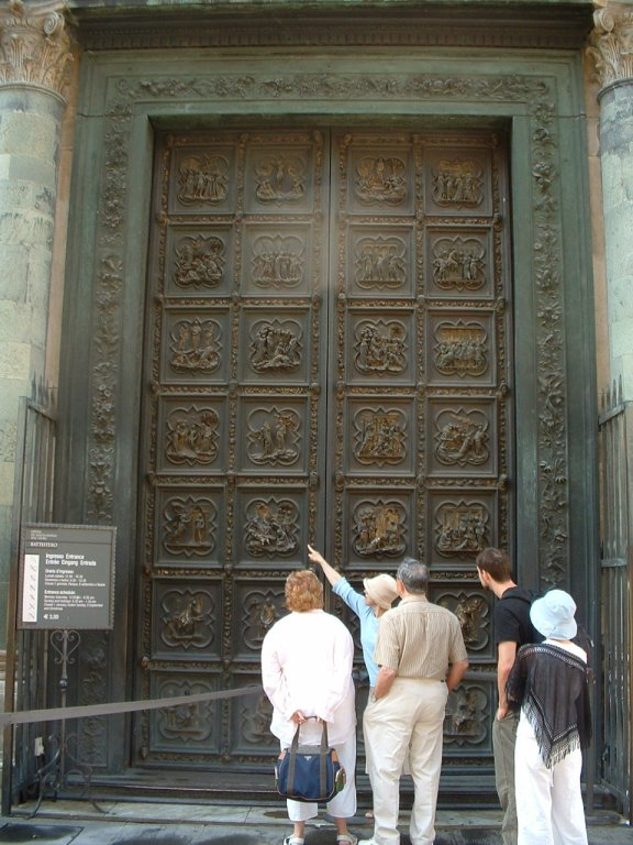 North Doors of the Battisteria di San Giovanni, Florence. 19 May 2004.